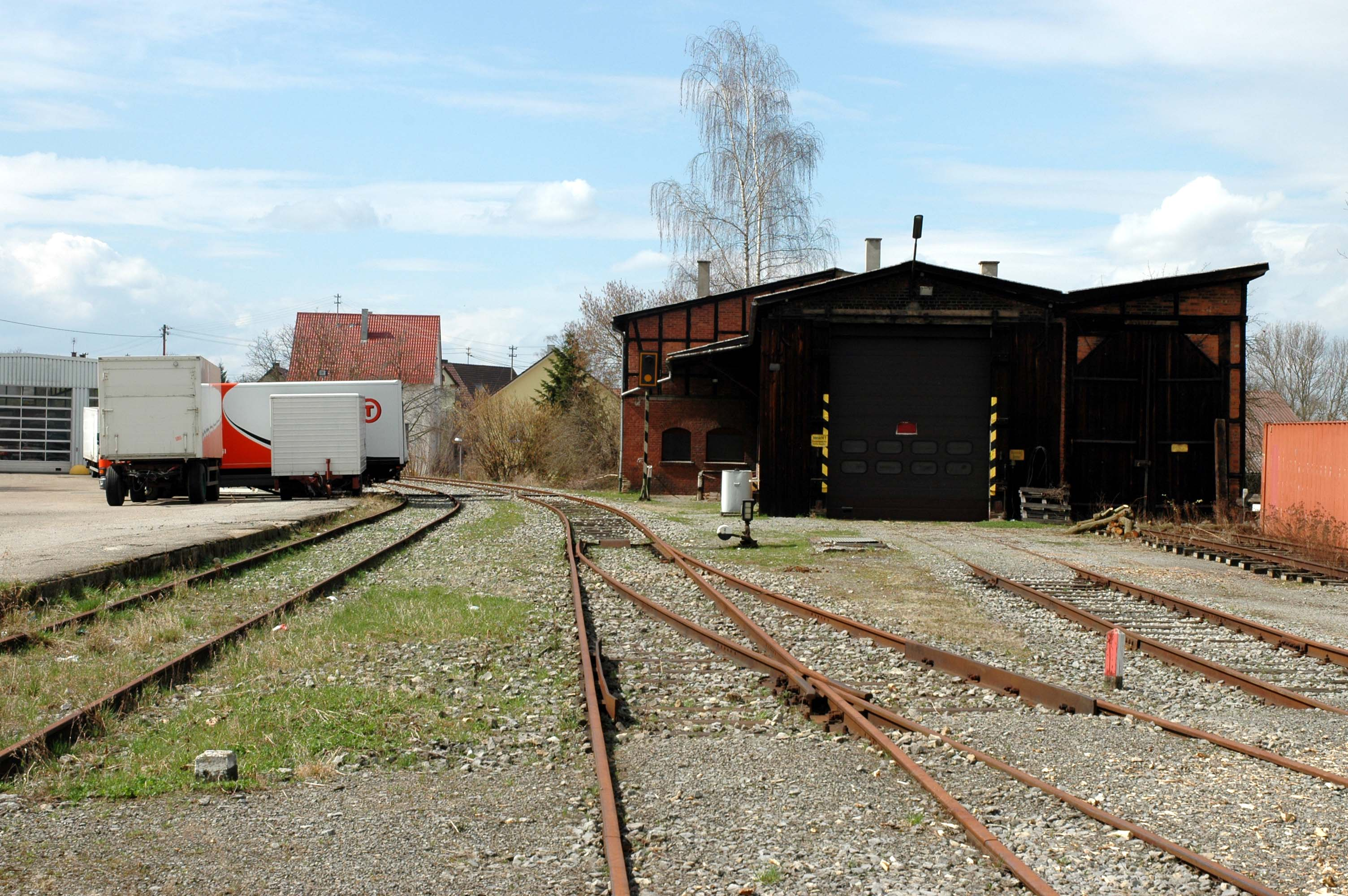 shelter at abandoned station of Enzweihingen